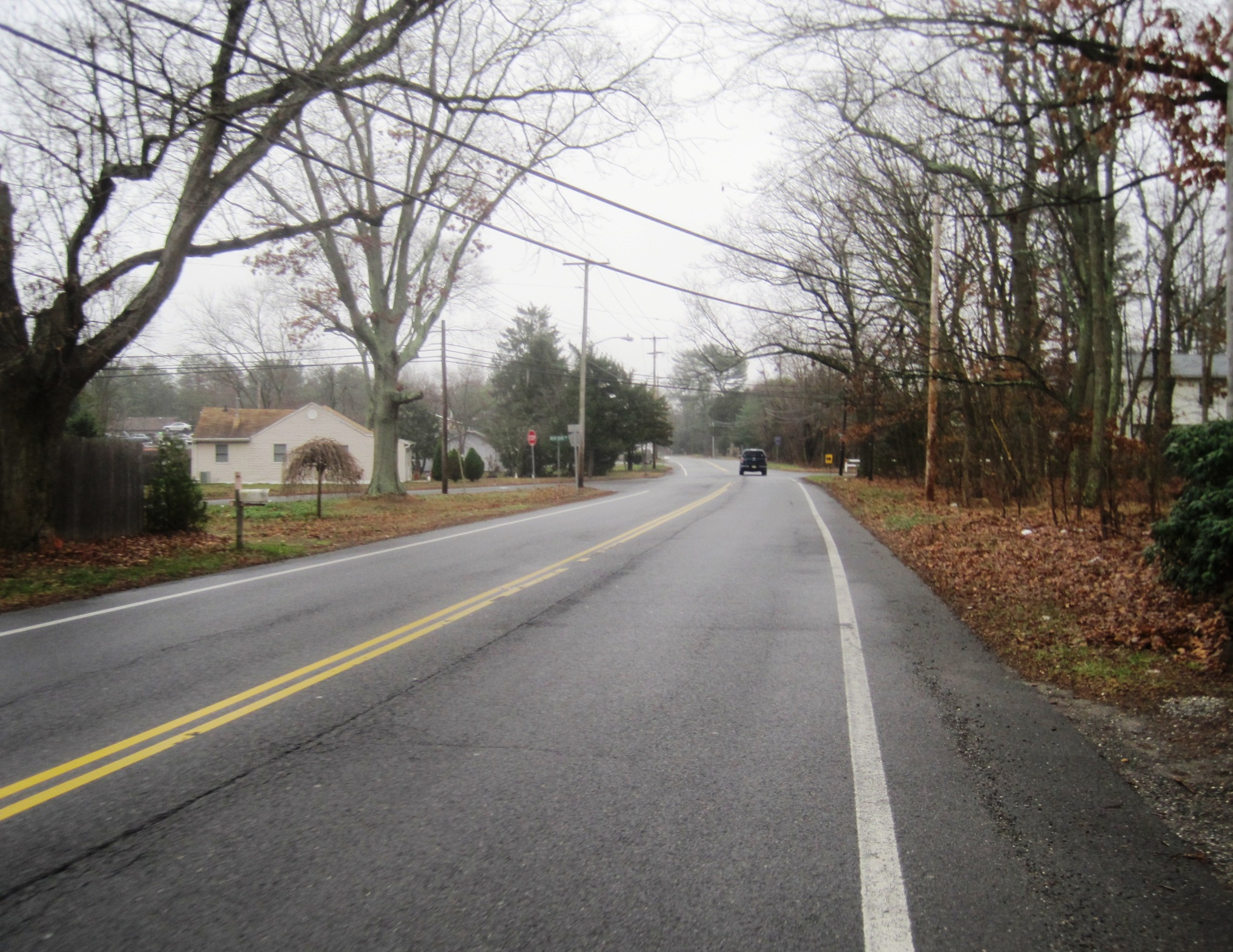 Photo of Maryland, New Jersey, an unincorporated community within Jackson Township. Photo taken looking east along Commodore Boulevard (County Route 526) approaching Wright-Debow Road and Burke Road.